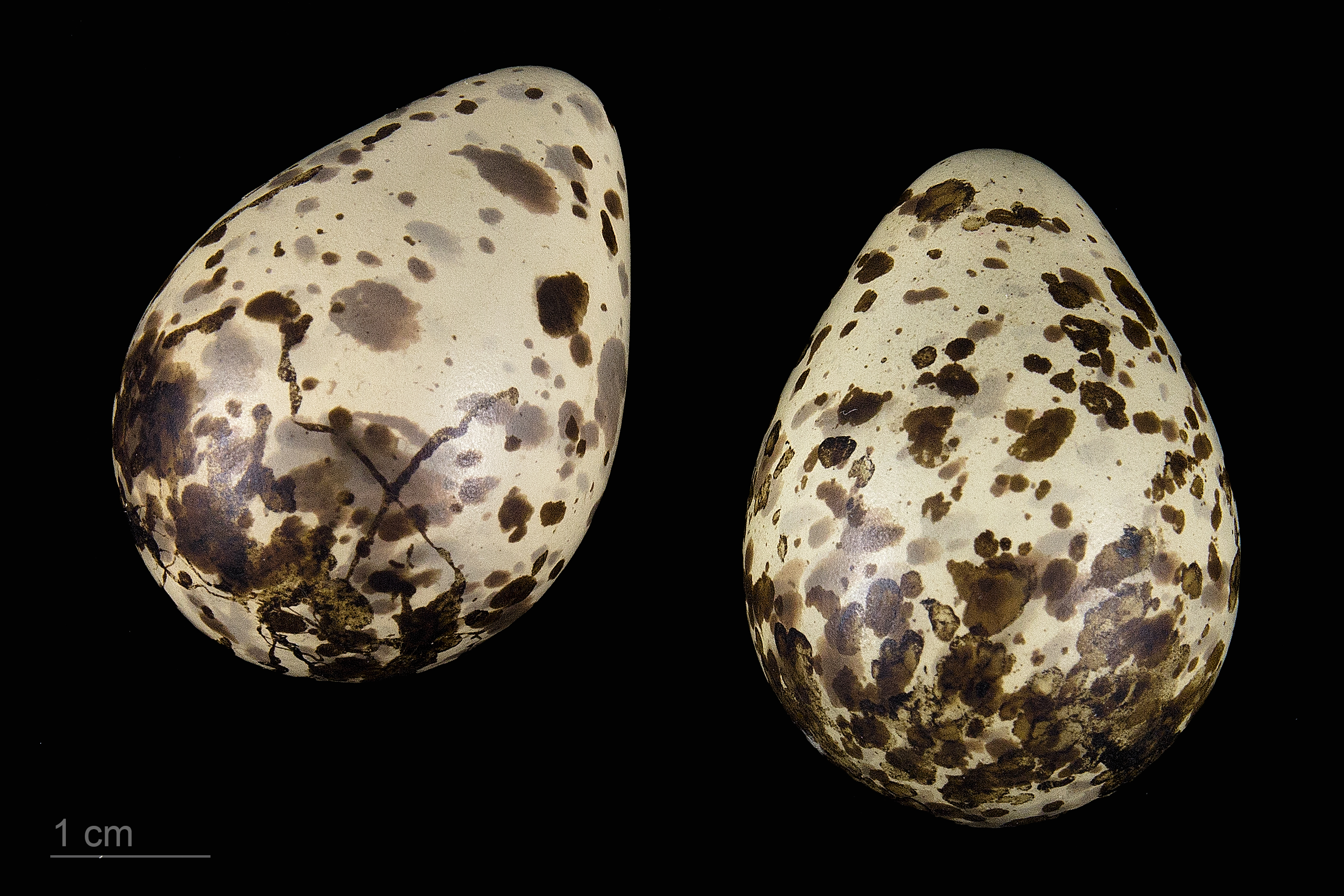 Eggs of Gallinago gallinago gallinago Two specimens of the same spawn ; collection of Jacques Perrin de Brichambaut.